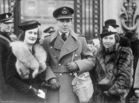 Hughie Edwards VC, an Australian Victoria Cross recipient during World War II, leaving Buckingham Palace with his wife (left) and mother-in-law (right) after attending an investiture to receive the VC off the King.